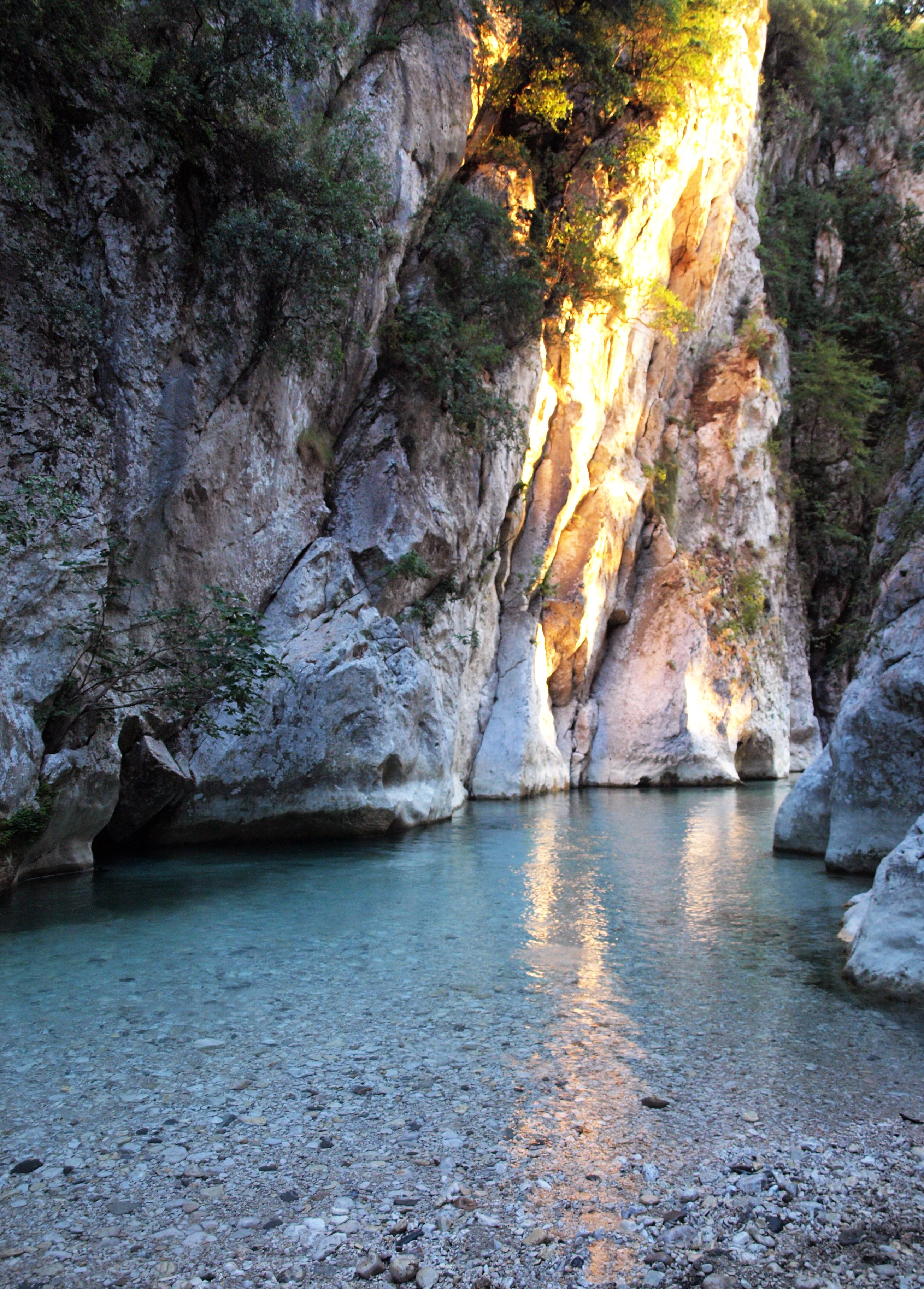 Acherontas river and canyon This is a photography of Natura 2000 protected area with ID GR2120008 125 GR2120008